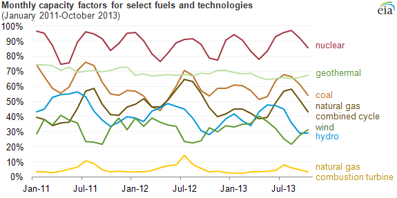 US EIA monthly capacity factors for select fuels and technologies, 2011-2013